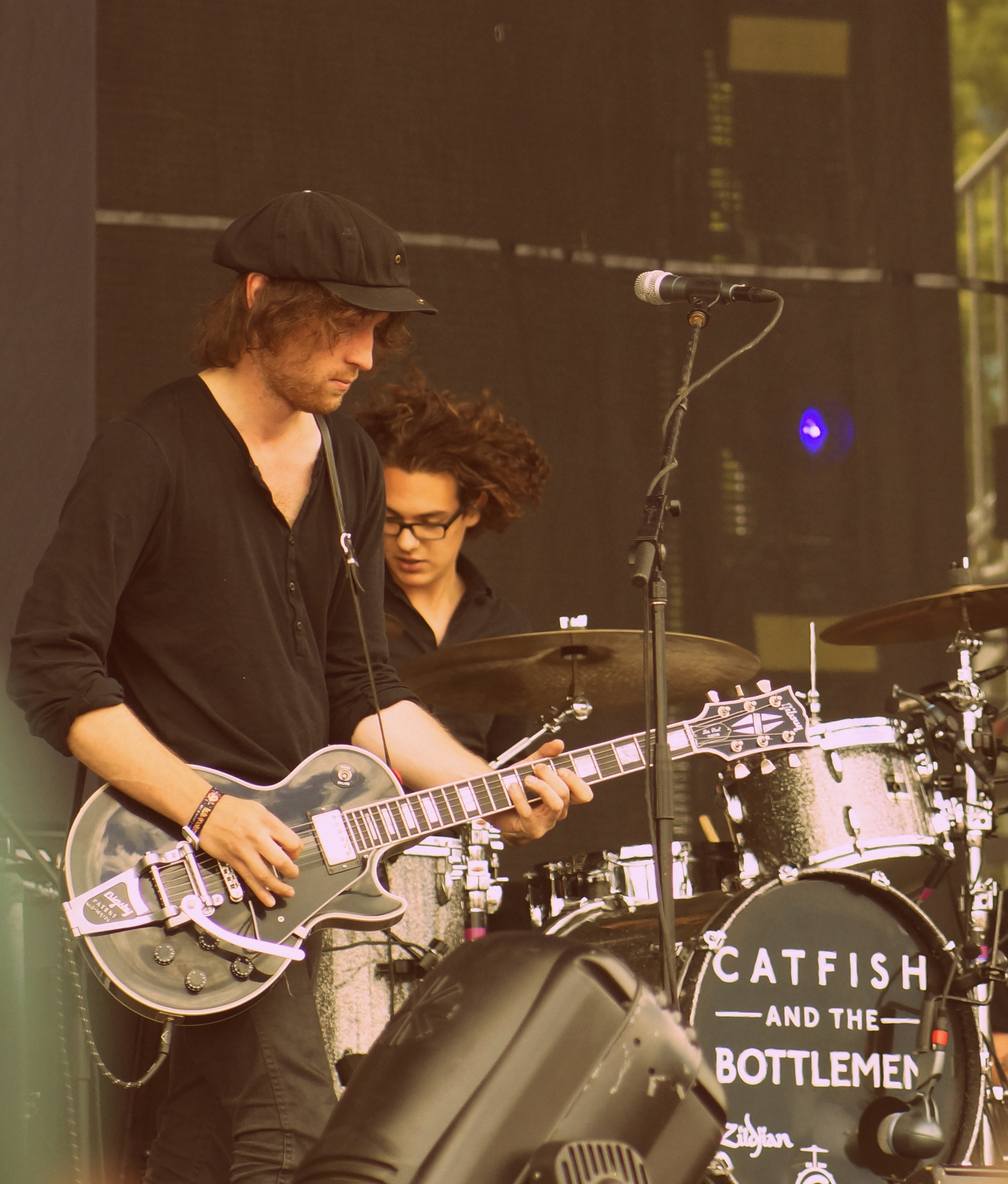 Catfish and the Bottlemen performing at the Lollapalooza Music Festival. More freely usable Lollapalooza 2015 Pictures.